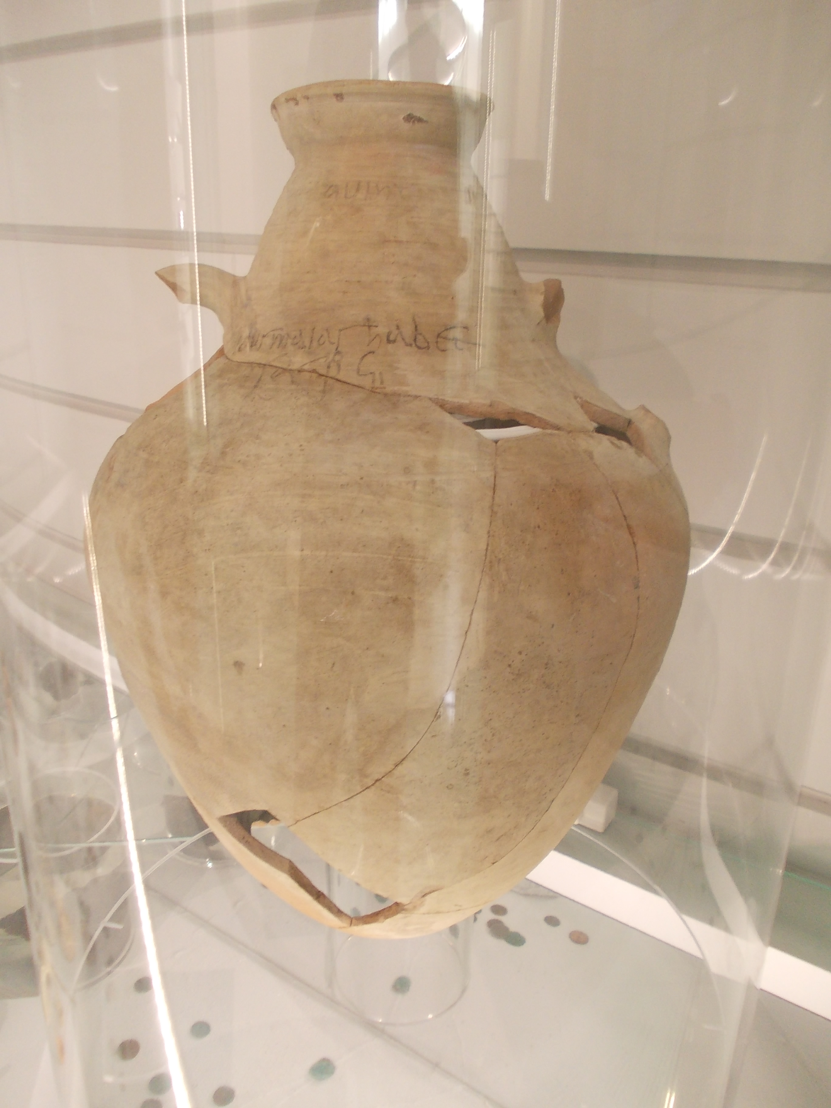 Amphora used for magical ritual at Anna Perenna fountain found in Rome